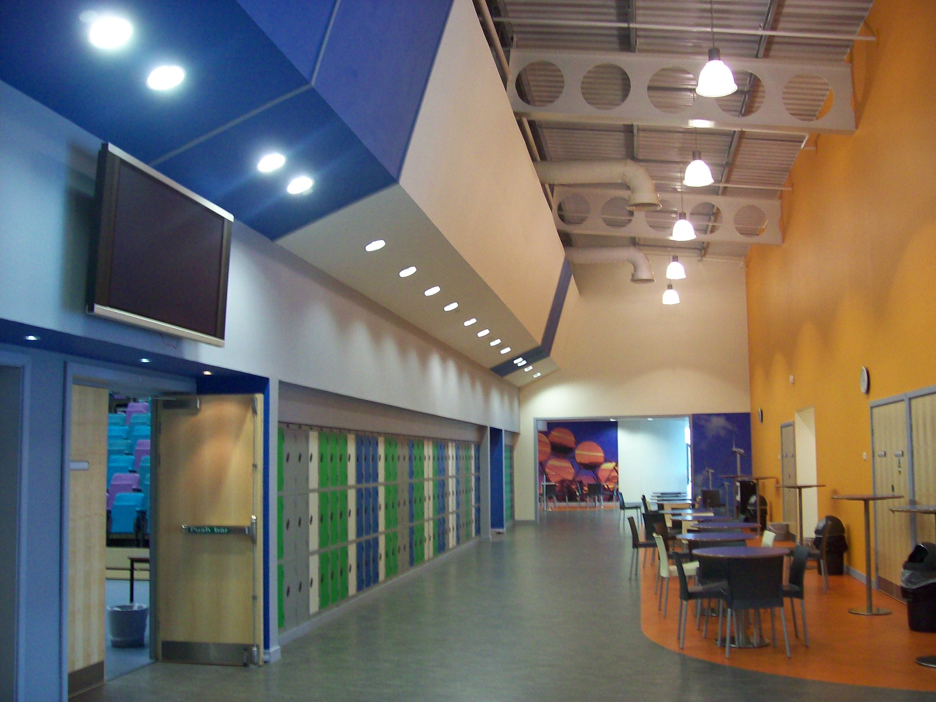 Corridor